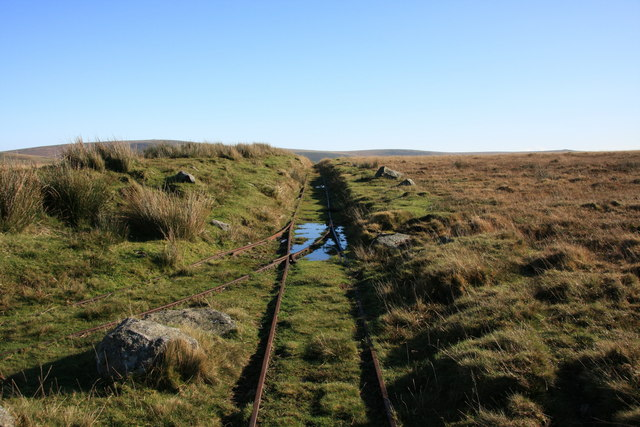 Military Target Railway A motorised trolley ran along this track carrying a tank shape, the bank on the left protected the trolley itself. Built in 1959 but based on an earlier target railway.